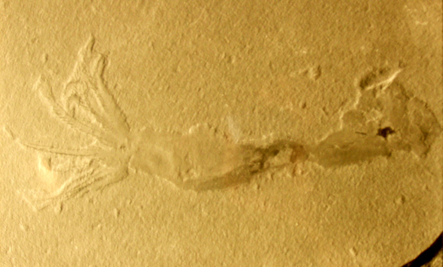 Holotype fossil of Ostenoteuthis siroi from family Ostenoteuthidae.